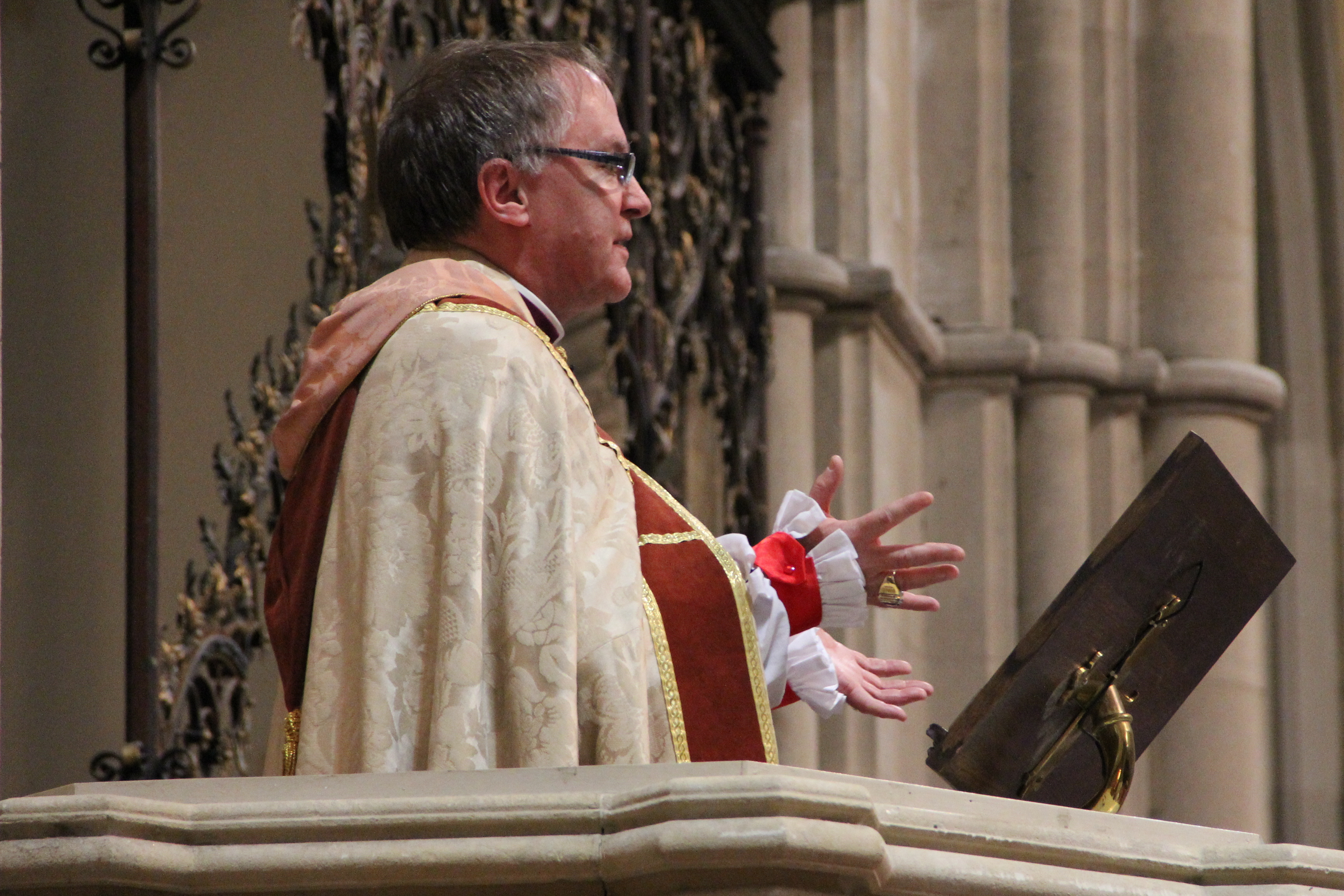 Gregor Duncan preaching at Choral Evensong in St Mary's Episcopal Cathedral, Glasgow on 13 May 2012